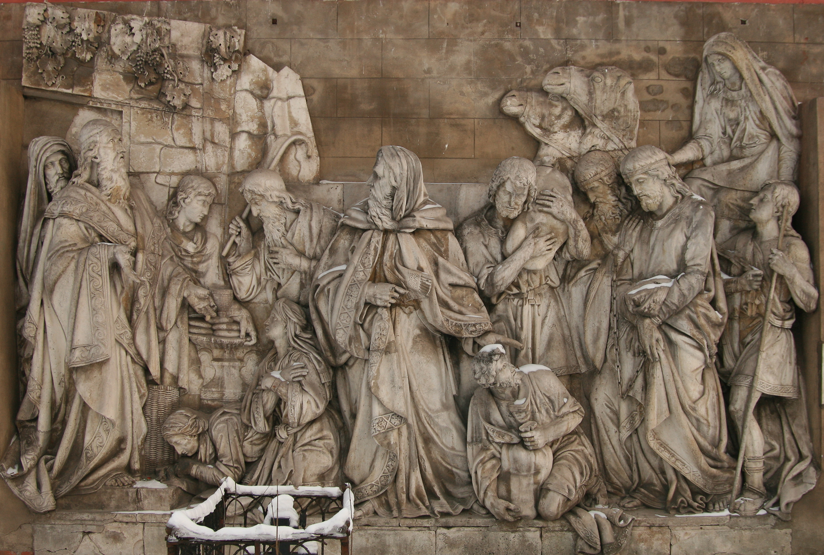 A preserved relief of the original Christ the Saviour Cathedral, Donskoy Monastery, Moscow